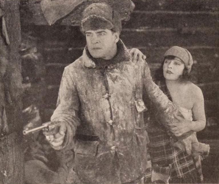 Still from the American drama film Bare Knuckles (1921) with William Russell and Mary Thurman,on page 63 of the March 12, 1921 Exhibitors Herald.